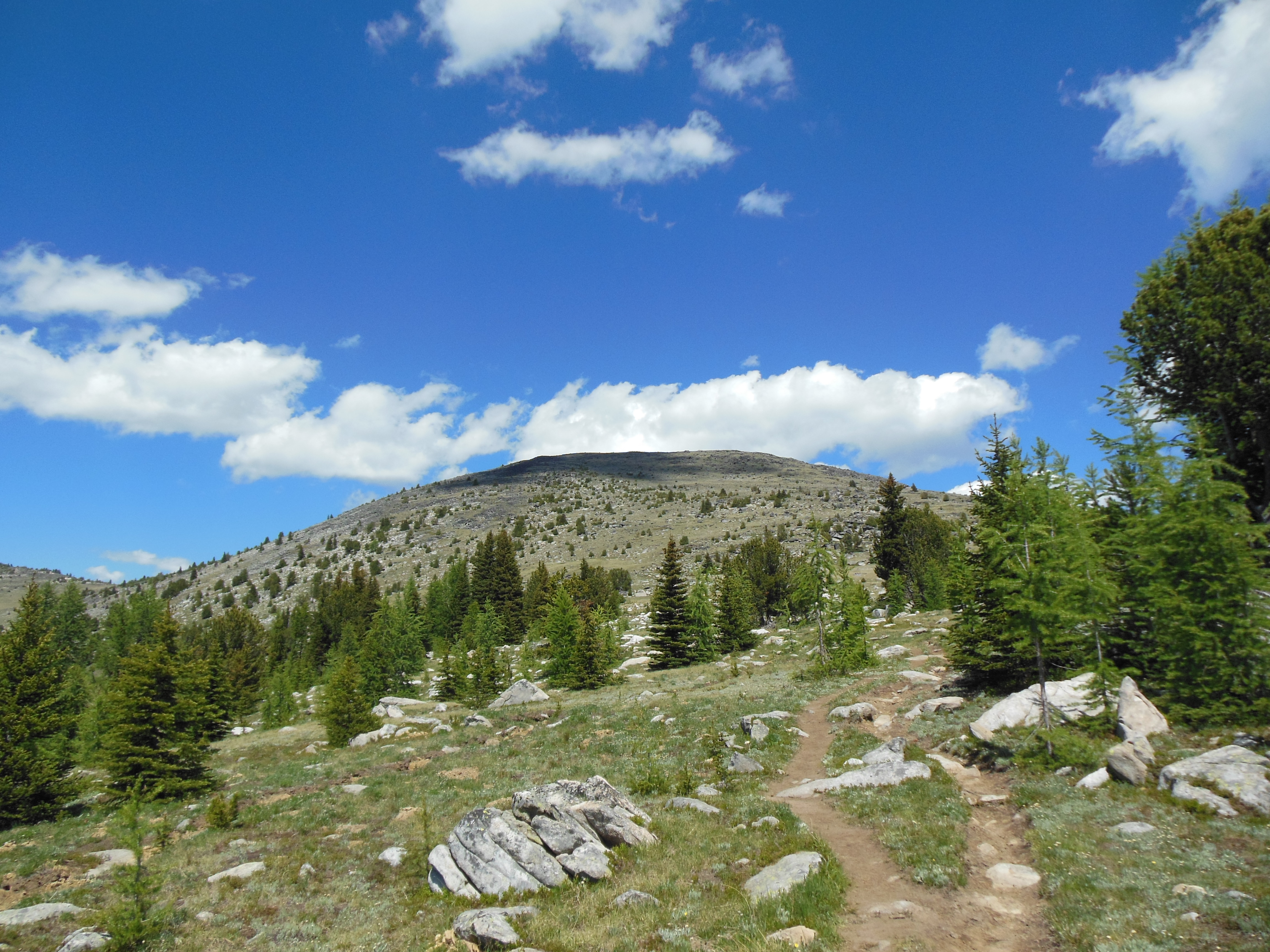 Trail up the south side of Tiffany Mountain in the Okanogan National Forest, Okanogan County, Washington, USA